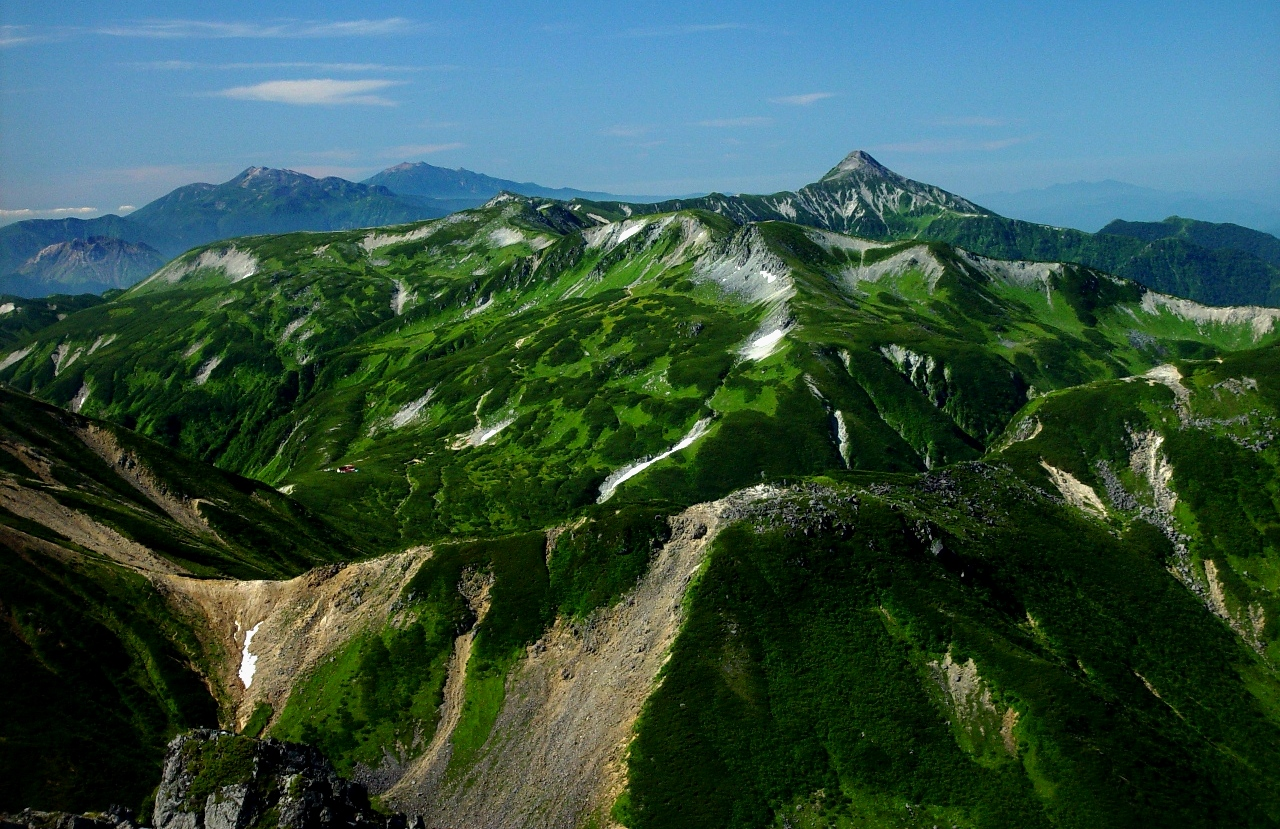 Mount Mitsumatarenge, Mount Sugoroku, Mount Kasa and Mount Norikura seen from Mount Suisho